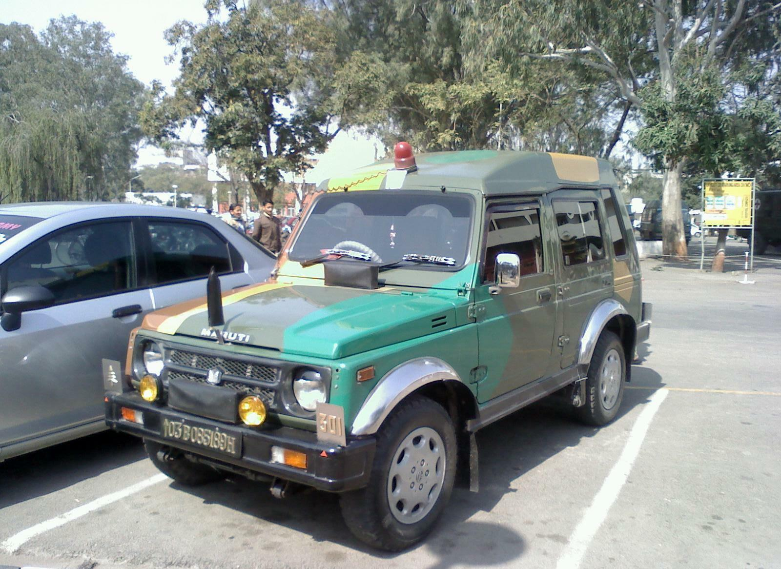 Indian Army`s Maruti Jeep 4X4, VIP version.